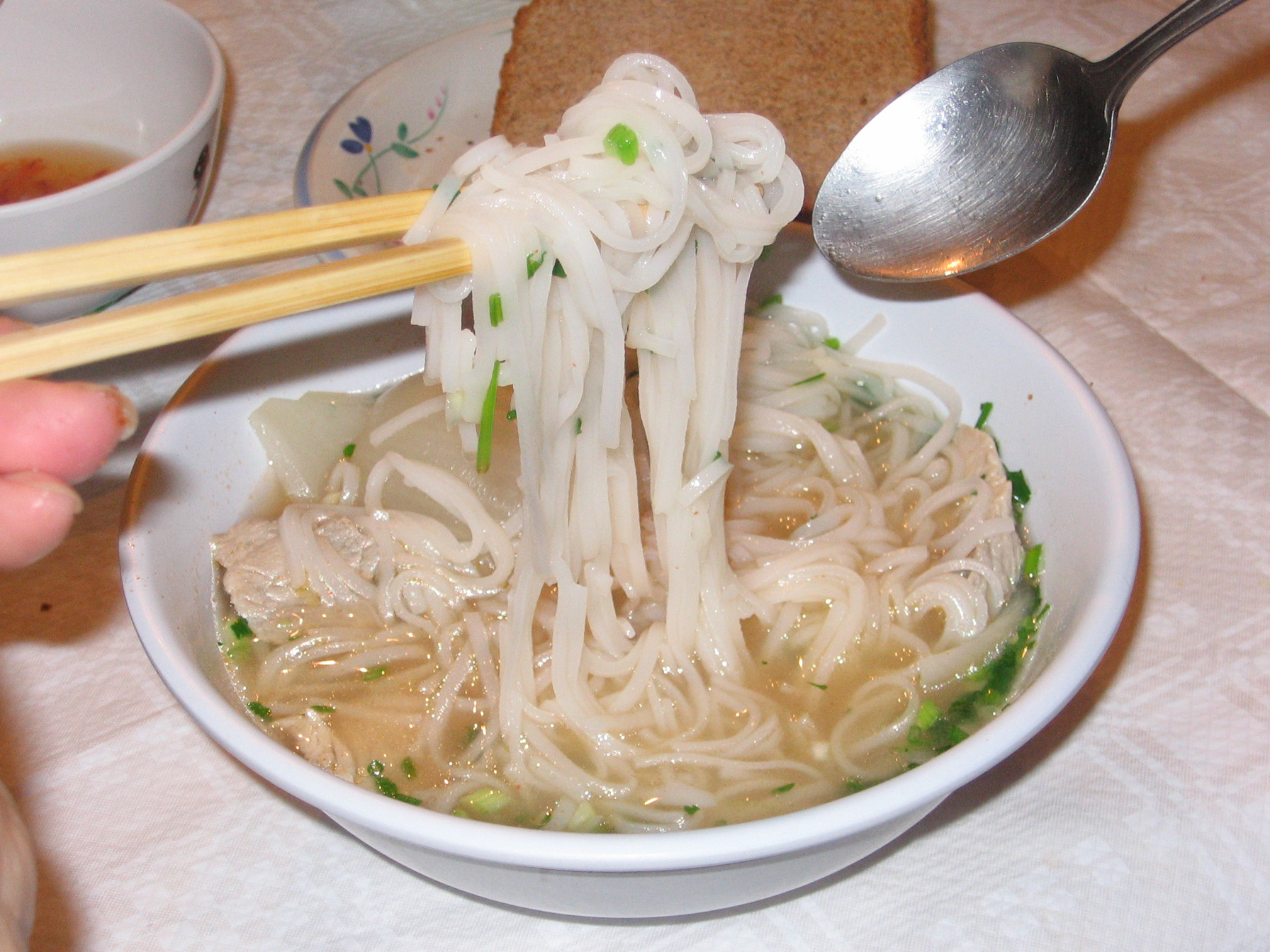 Another photo of a bowl of the Vietnamese soup, Pho. The photo was taken by the uploader on January 31st, 2006. It was taken almost exactly 15 minutes ago. Need a life...